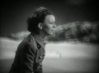 Cropped screenshot of Margaret Sullavan from the trailer for the film The Mortal Storm